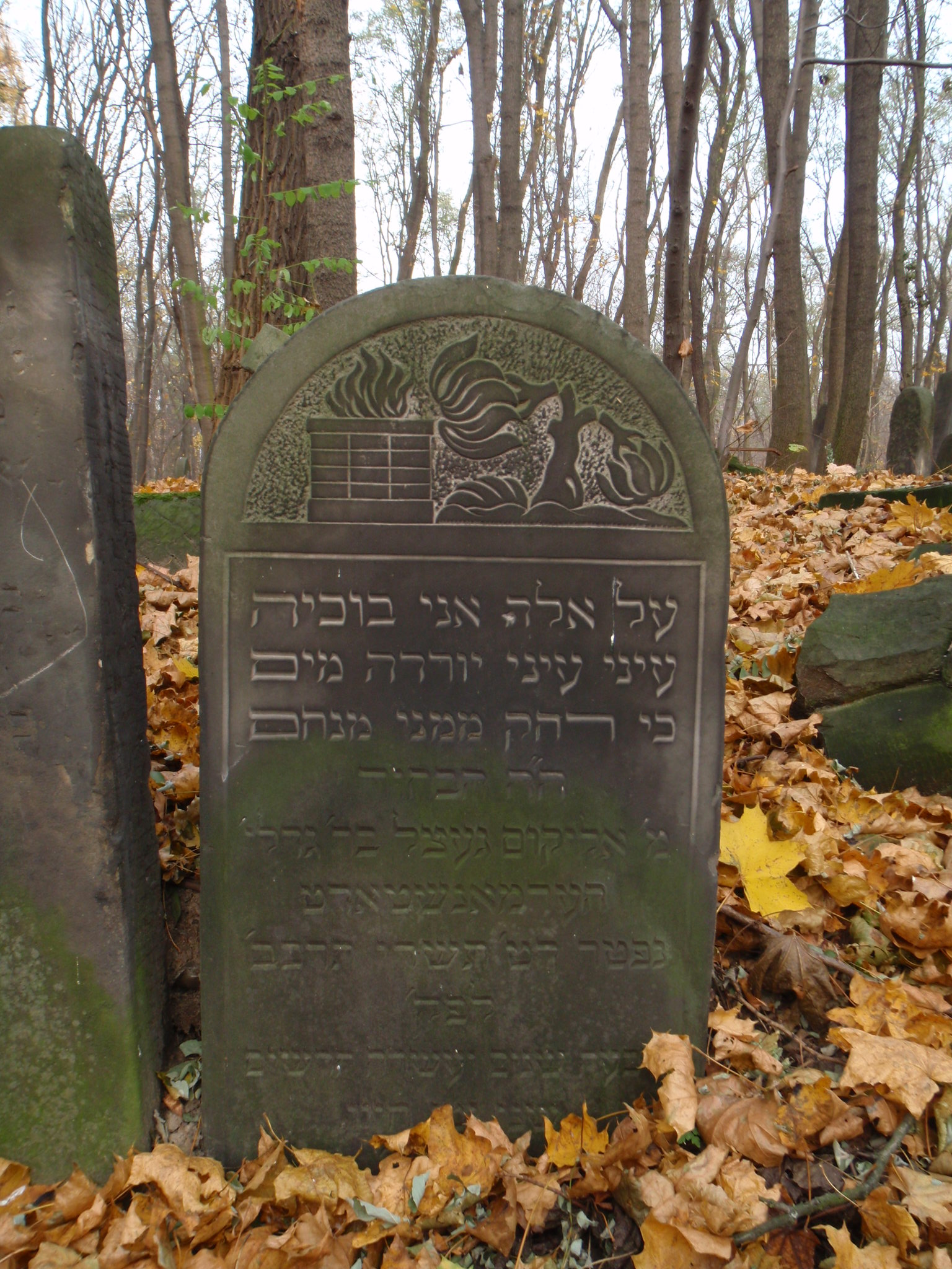 Powązki Jewish Cemetery - tombstone symbol